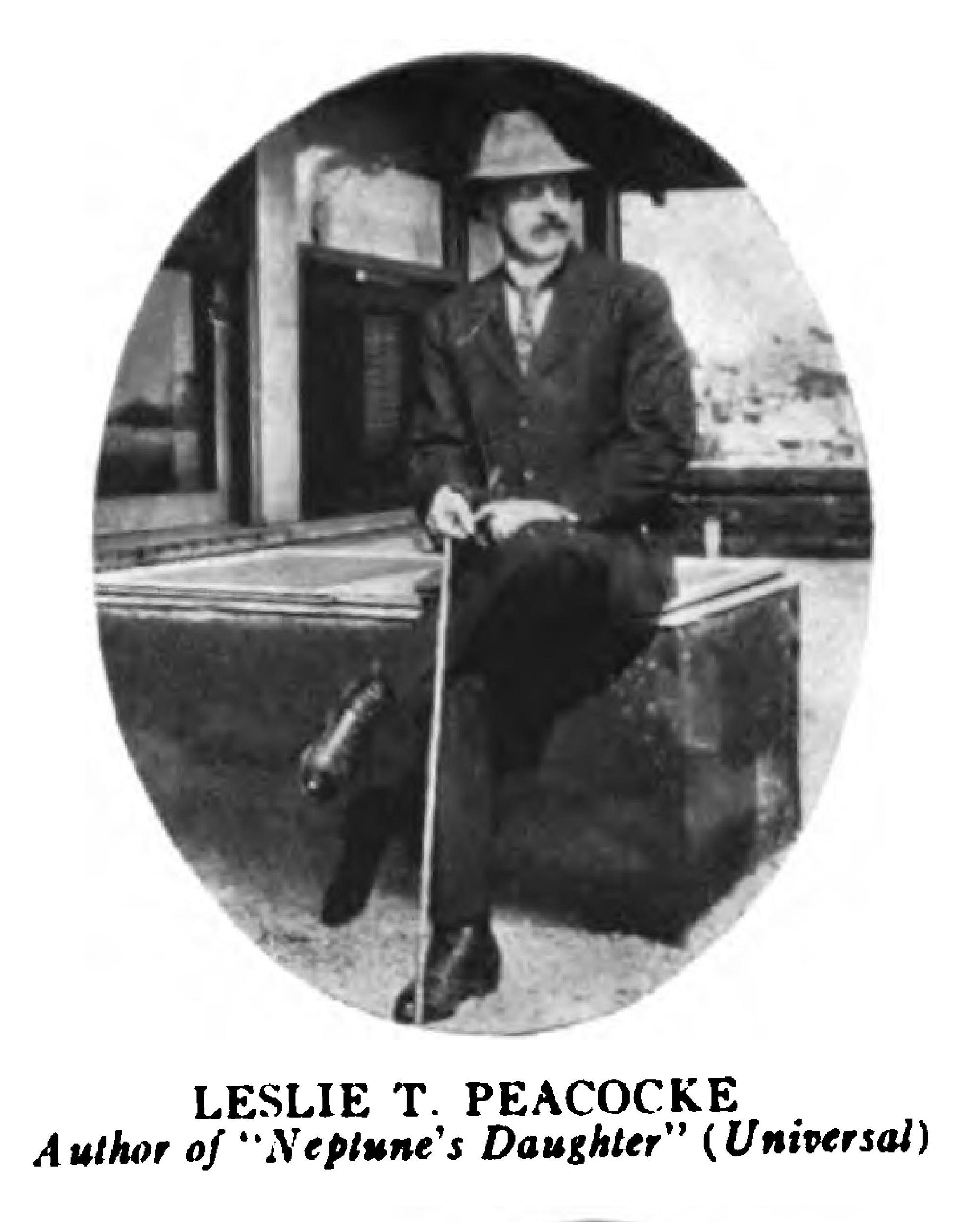 Leslie T Peacocke, screenwriter for Neptune's Daughter (1914)